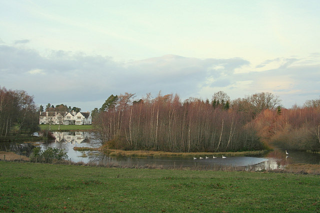 Altyre House and Loch on Boxing Day 2007